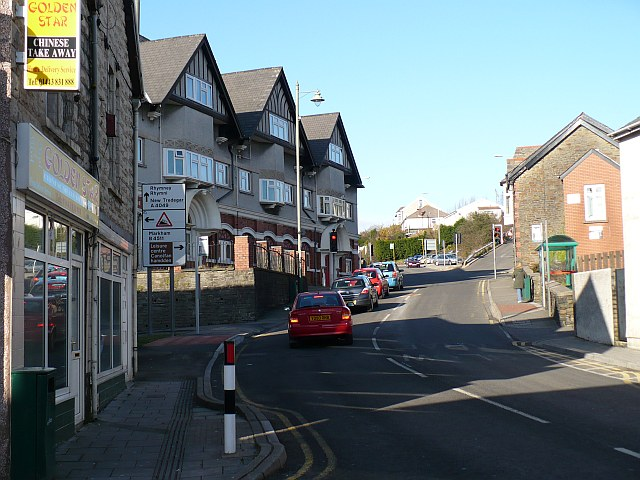 Commercial Street, Aberbargoed